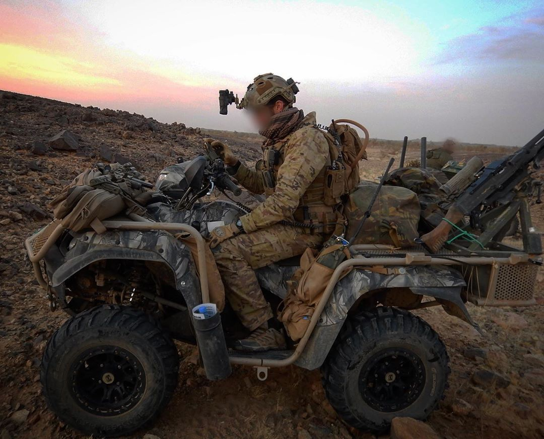 Korps Commandotroepen (KCT) on a Suzuki King Quad in Mali, near Kidal, 2016